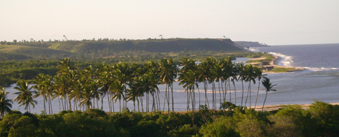 Pitimbue Beach